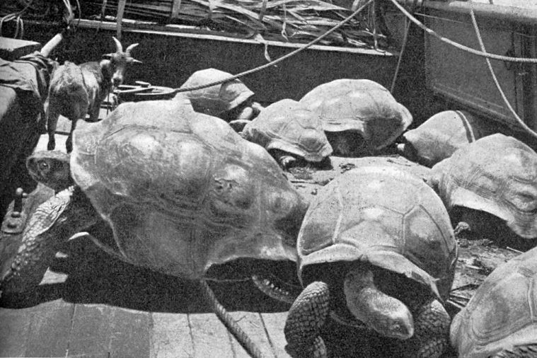 Galapagos tortoises on the ship